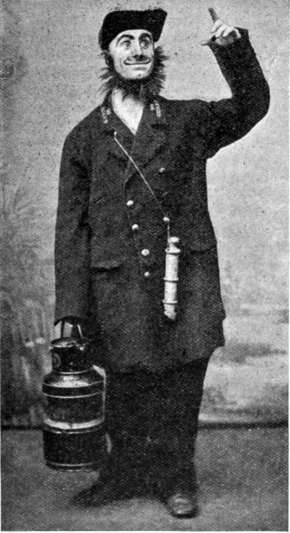 Dan Leno as the Railway Guard - one of his popular numbers